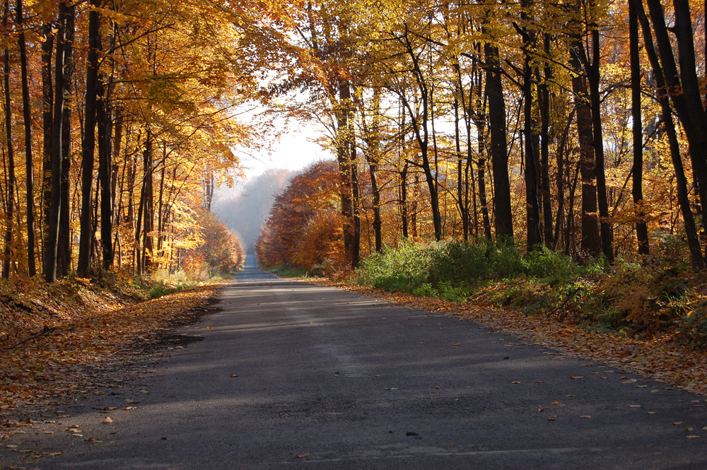 High Bakony Park near Porva, autumn 2007